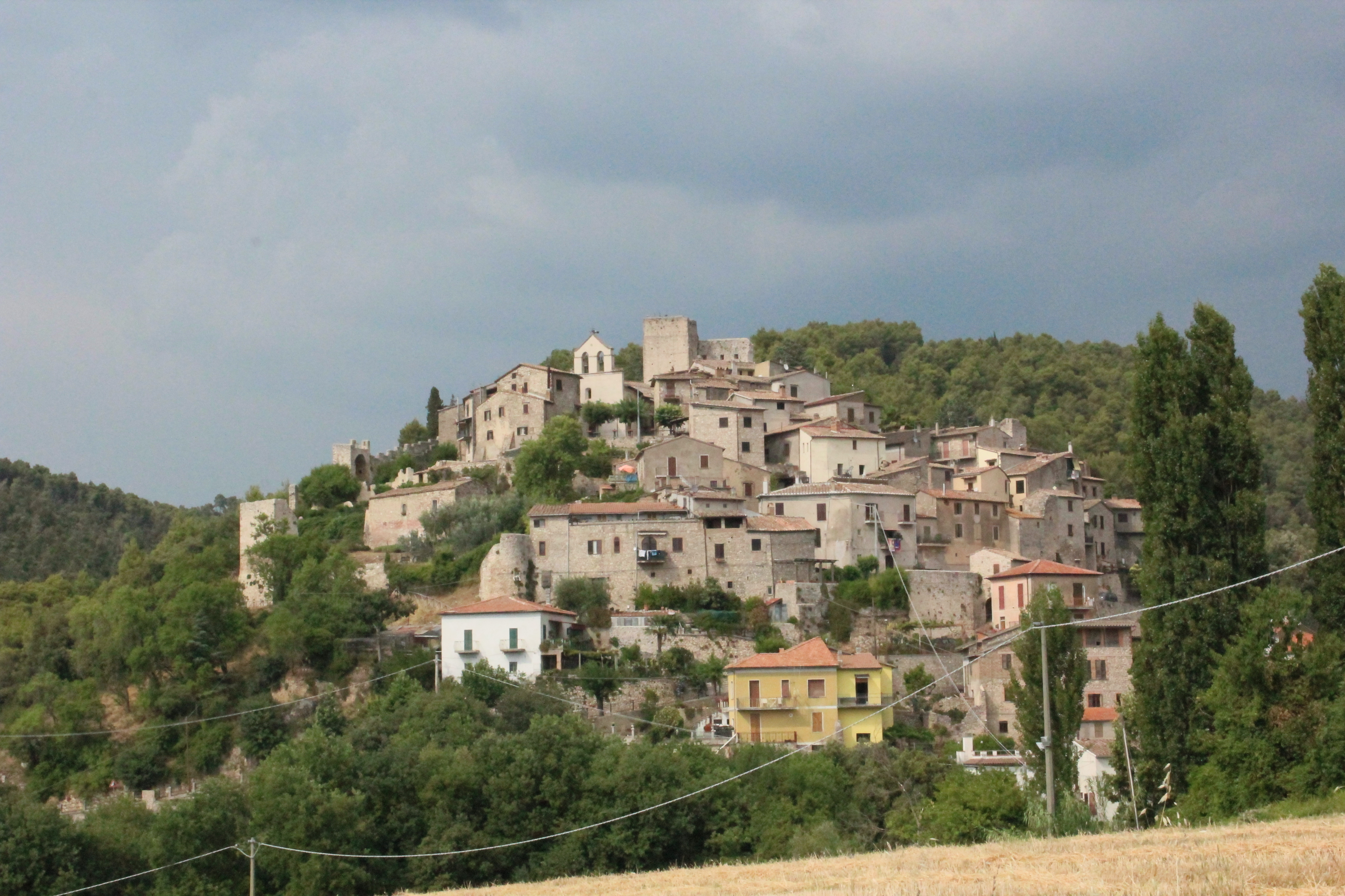 Poggio, hamlet of Otricoli, Province of Terni, Umbria, Italy